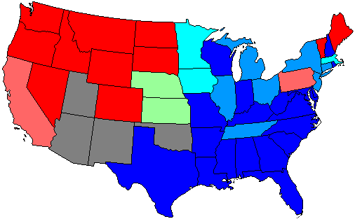 Summary of party control of U.S. house seats in the 52nd United States Congress following election. Stripes indicate a tie between two or more parties. Legend: 80.1-100% Democratic seat majority 60.1-80% Democratic seat majority 60% or less Democratic seat plurality 60% or less Republican seat plurality 60.1-80% Republican seat majority 80.1-100% Republican seat majority 60% or less Populist seat plurality 60.1-80% Populist seat majority 80.1-100% Populist seat majority